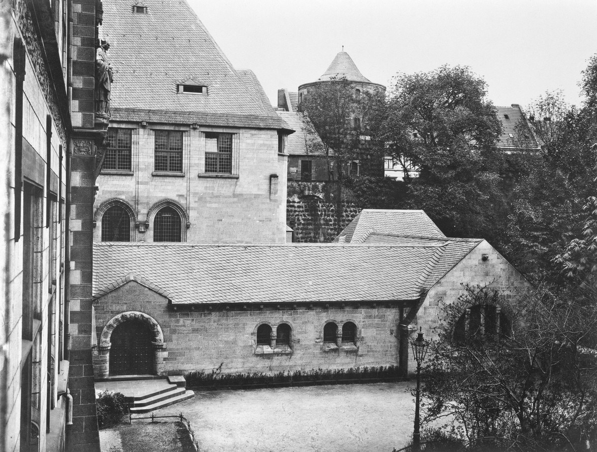 Köln - Hansaring Anbau Schnütgen-Museum, im Hintergrund Gereonsmühle, um 1910